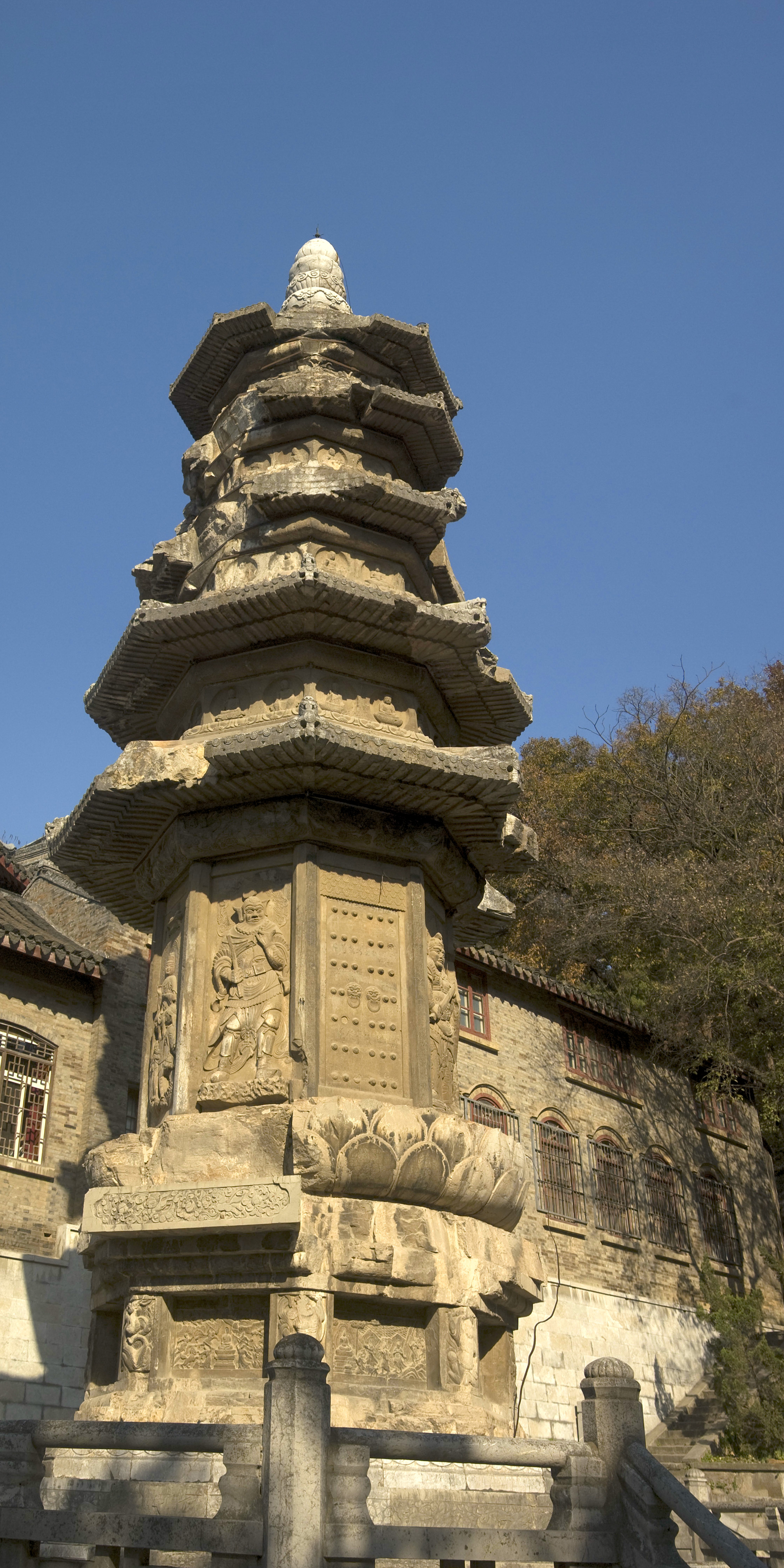 This is the Sarira Dagoba in Qixia Temple.